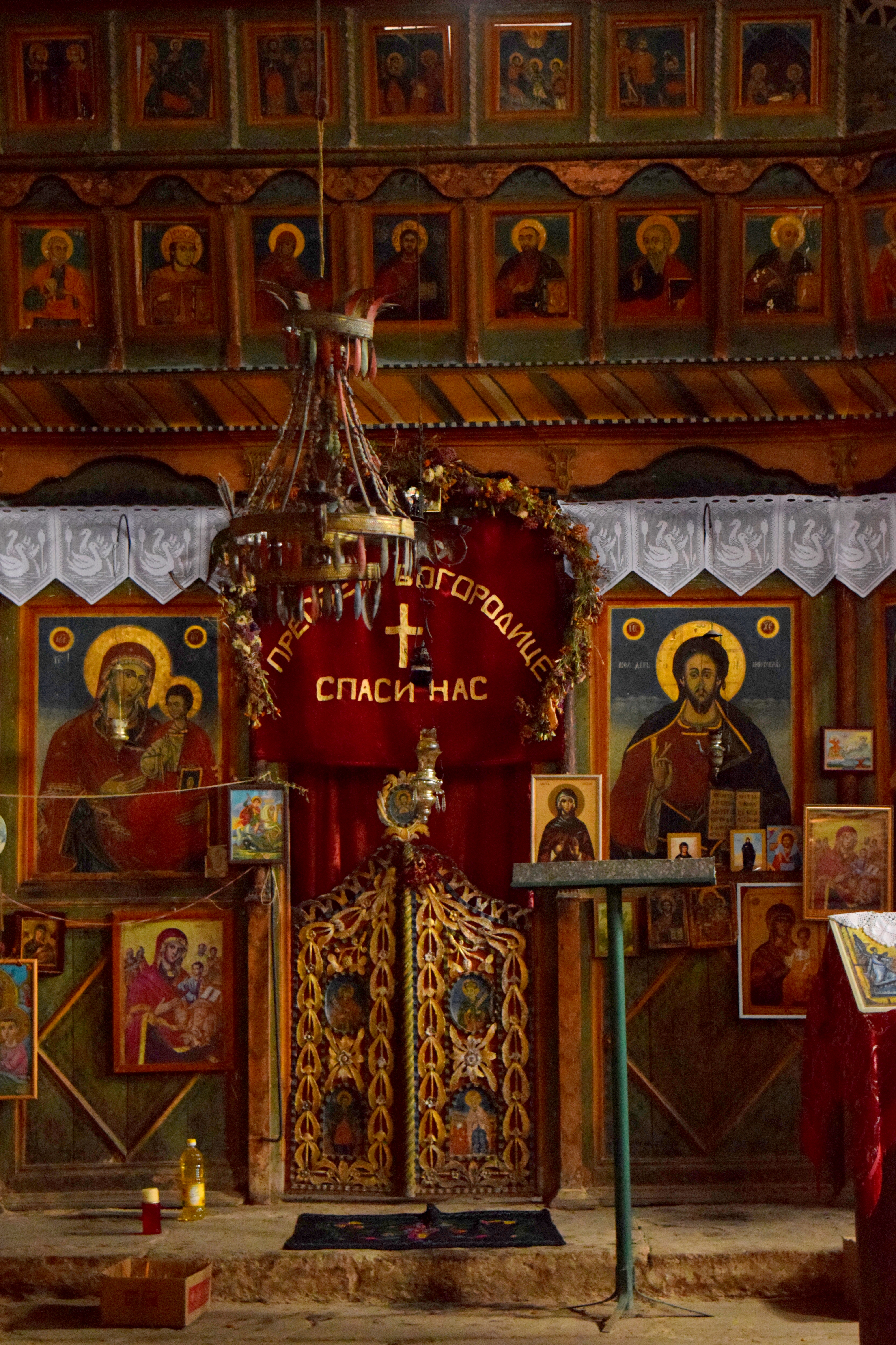 Interior of the St. Mary Church in the village Bistrica